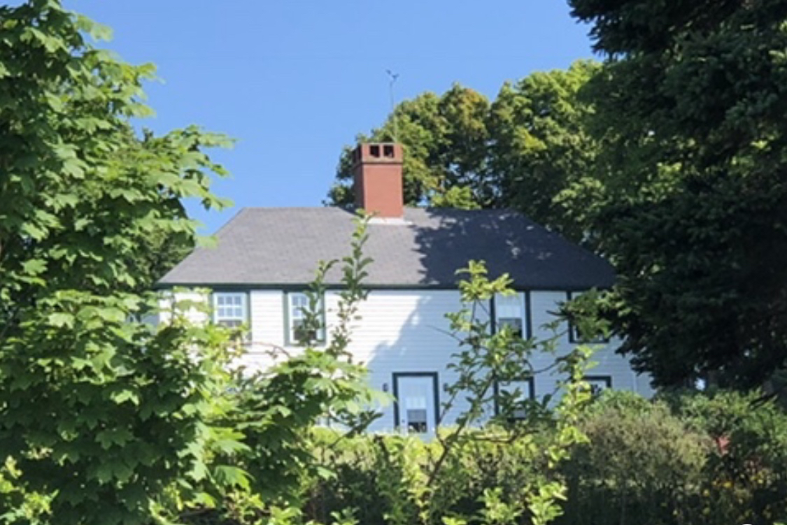 Wisteria Cottage House (former Blockhouse and the Jonathan Prescott Home), Chester, Nova Scotia